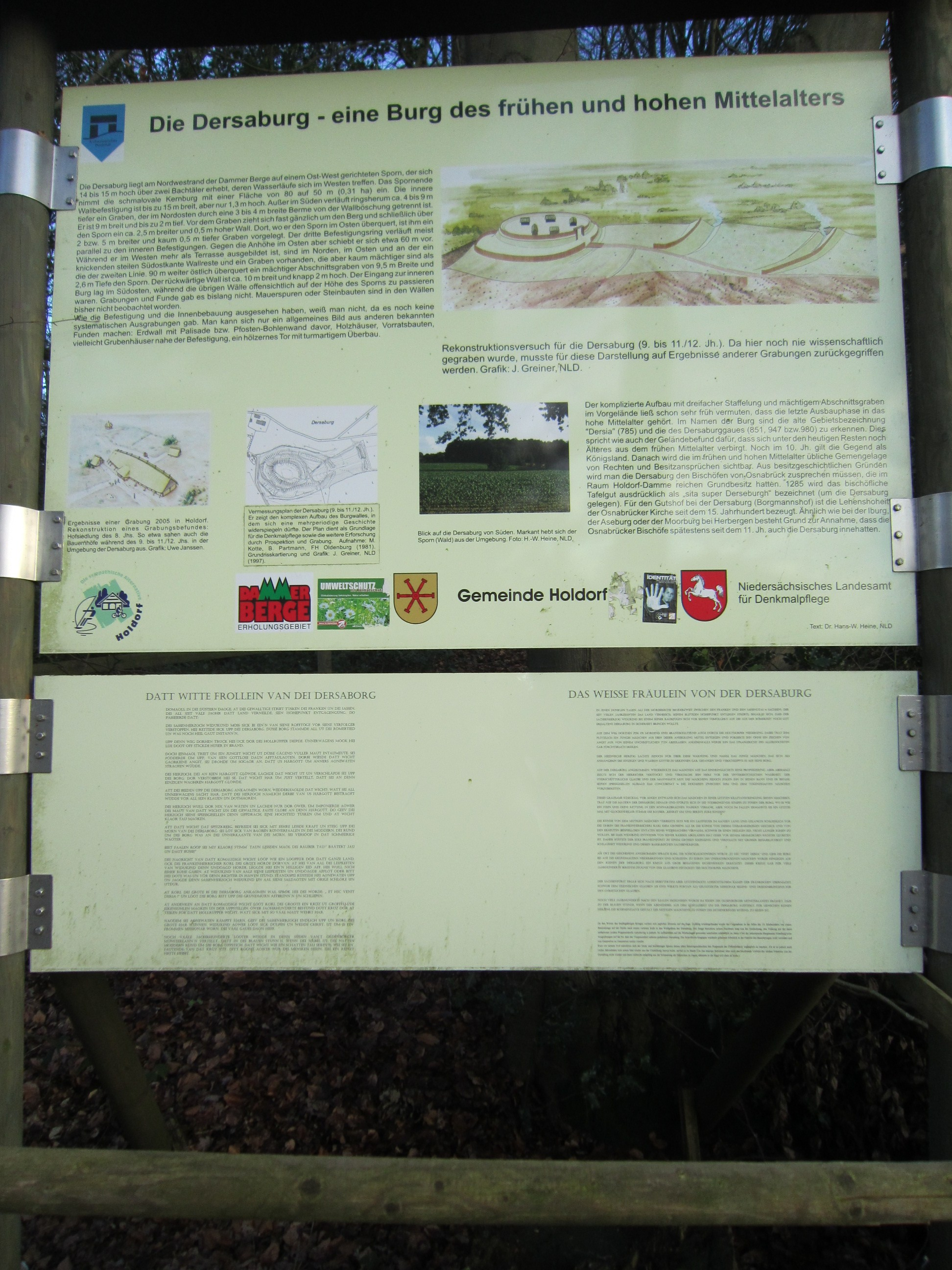 Information board at Dersaburg (Holdorf)